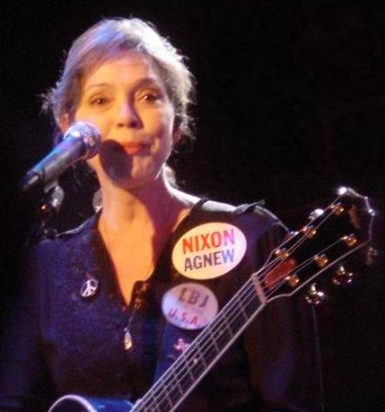 Nanci Griffith performing on stage at The Birchmire, Alexandria, VA. (additional comments, found on internet: "she wears the Nixon/Agnew button because one night when appearing in D.C., she commented that compared to Bush/Cheney, Nixon didn’t seem so bad. At her performance the next night, a long-time fan gave her three Nixon buttons. She wears the LBJ button because of his accomplishments in civil rights and because he was a fellow Texan".